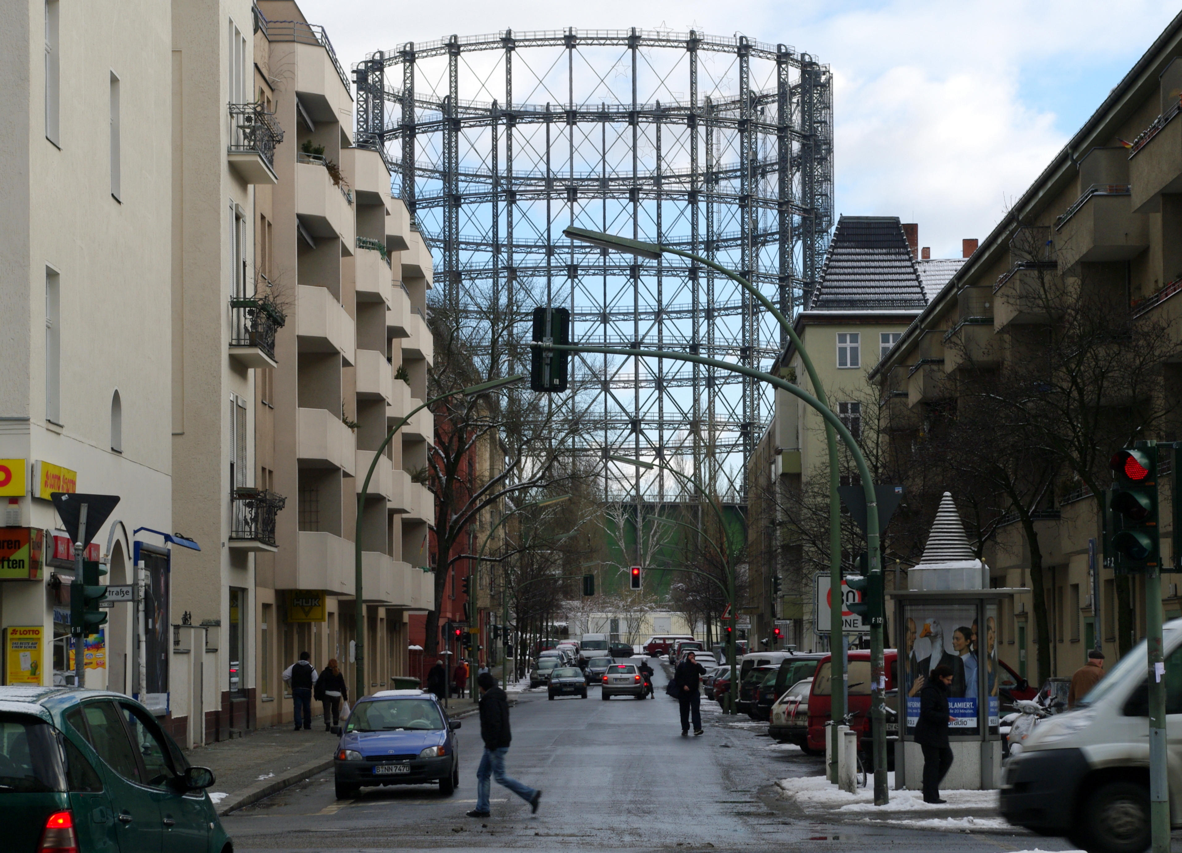 Albertstraße in Berlin